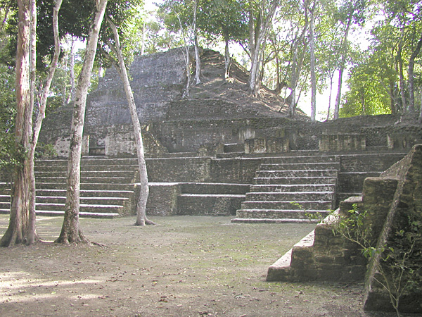 Main courtyard, Cahal Pech, Belize. Image taken by Clark Anderson/Aquaimages.